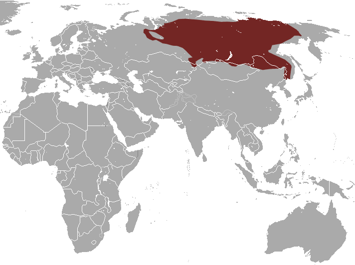 Flat-skulled Shrew (Sorex roboratus) range